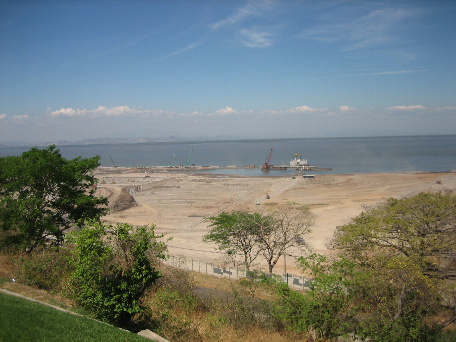 The new port under construction in the Port of La Union. Taken on my recent visit to the area.